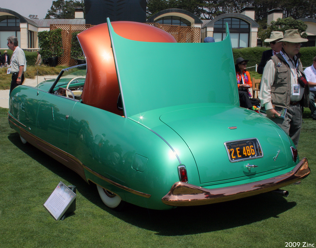 Chrysler LeBaron Thunderbolt 1941 Pebble Beach Concours d'Elegance, Aug 16, 2009